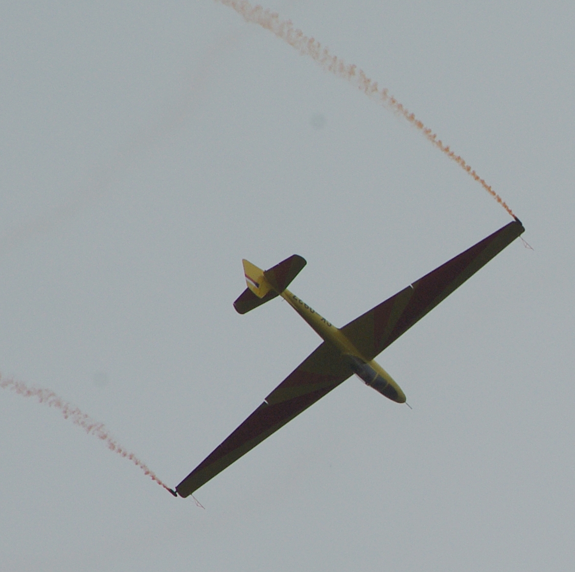 Lunak inverted during aerobatics, Old Warden, June 2014